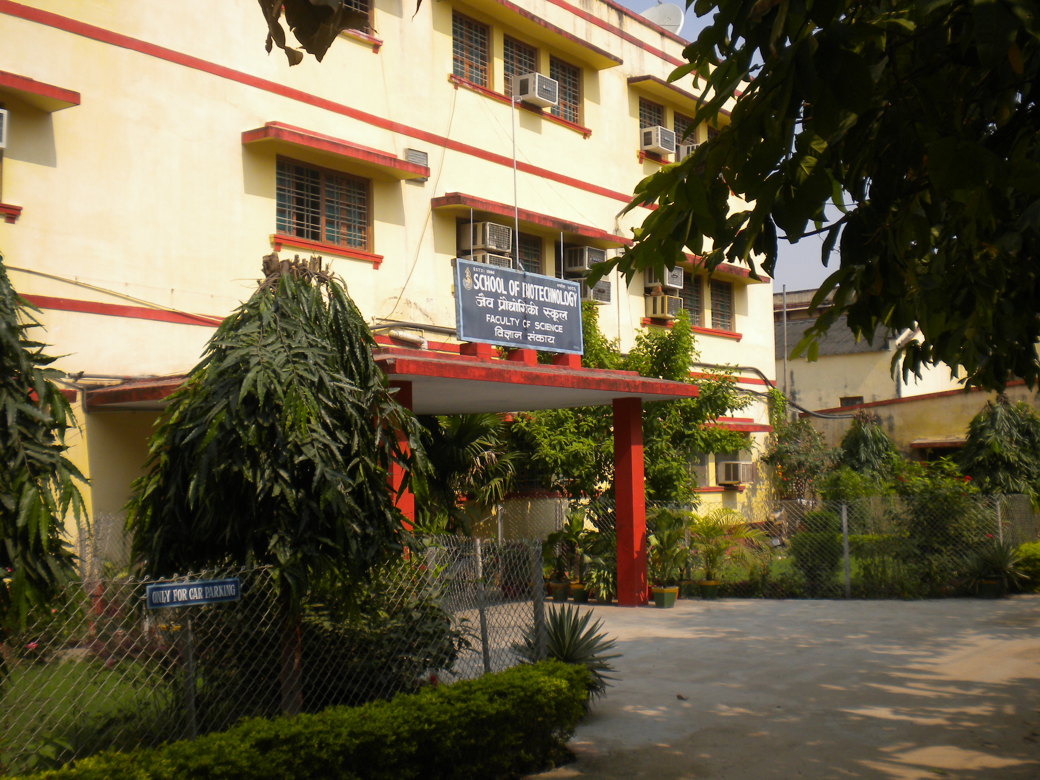 This is the picture of of School of Biotechnology, Banaras Hindu University (BHU), Varanasi, India. I am fortunate to be associated with School being alumnus of M.Sc. (Biotechnology) (2000-02).